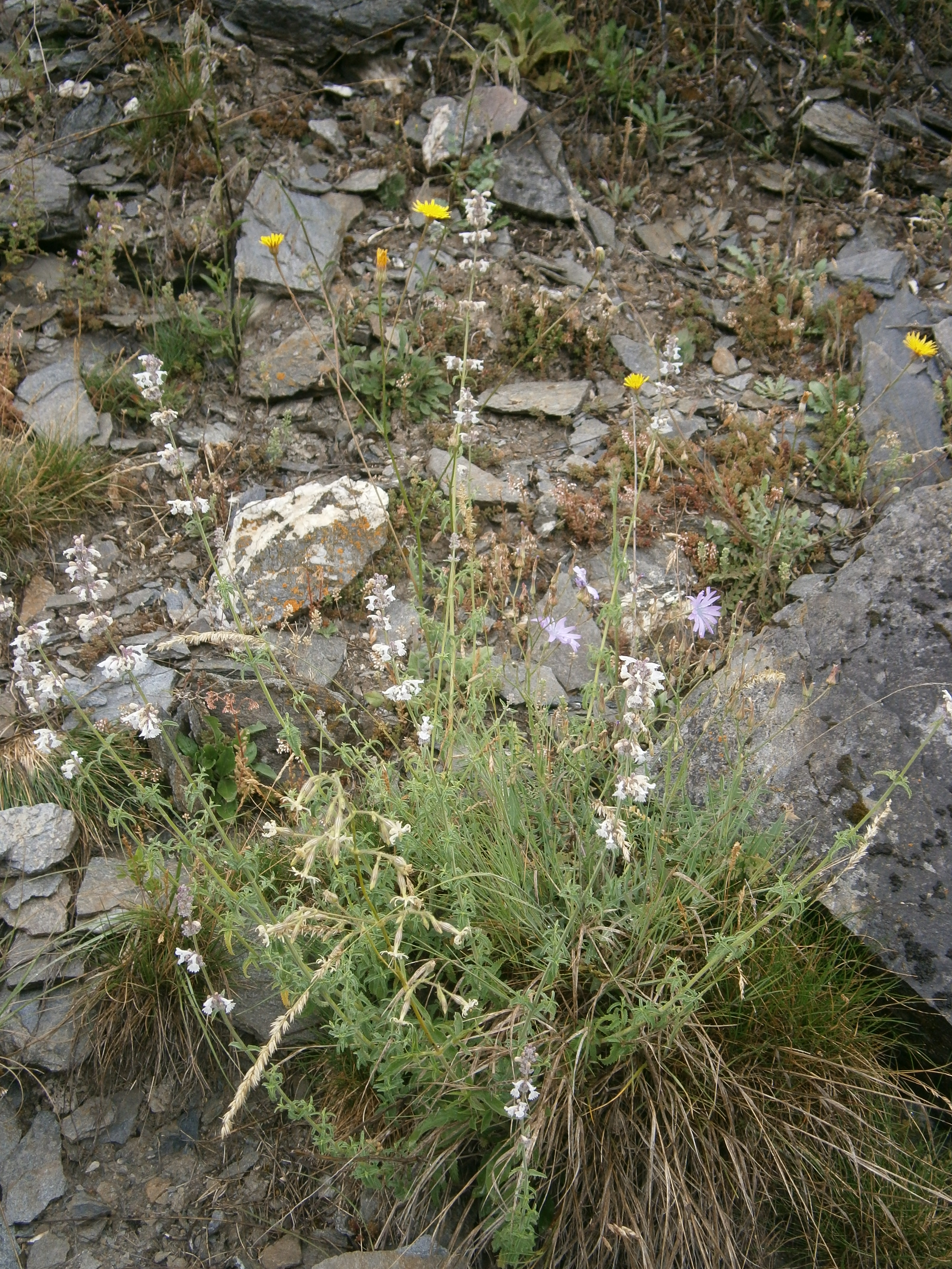 Nepeta nepetella